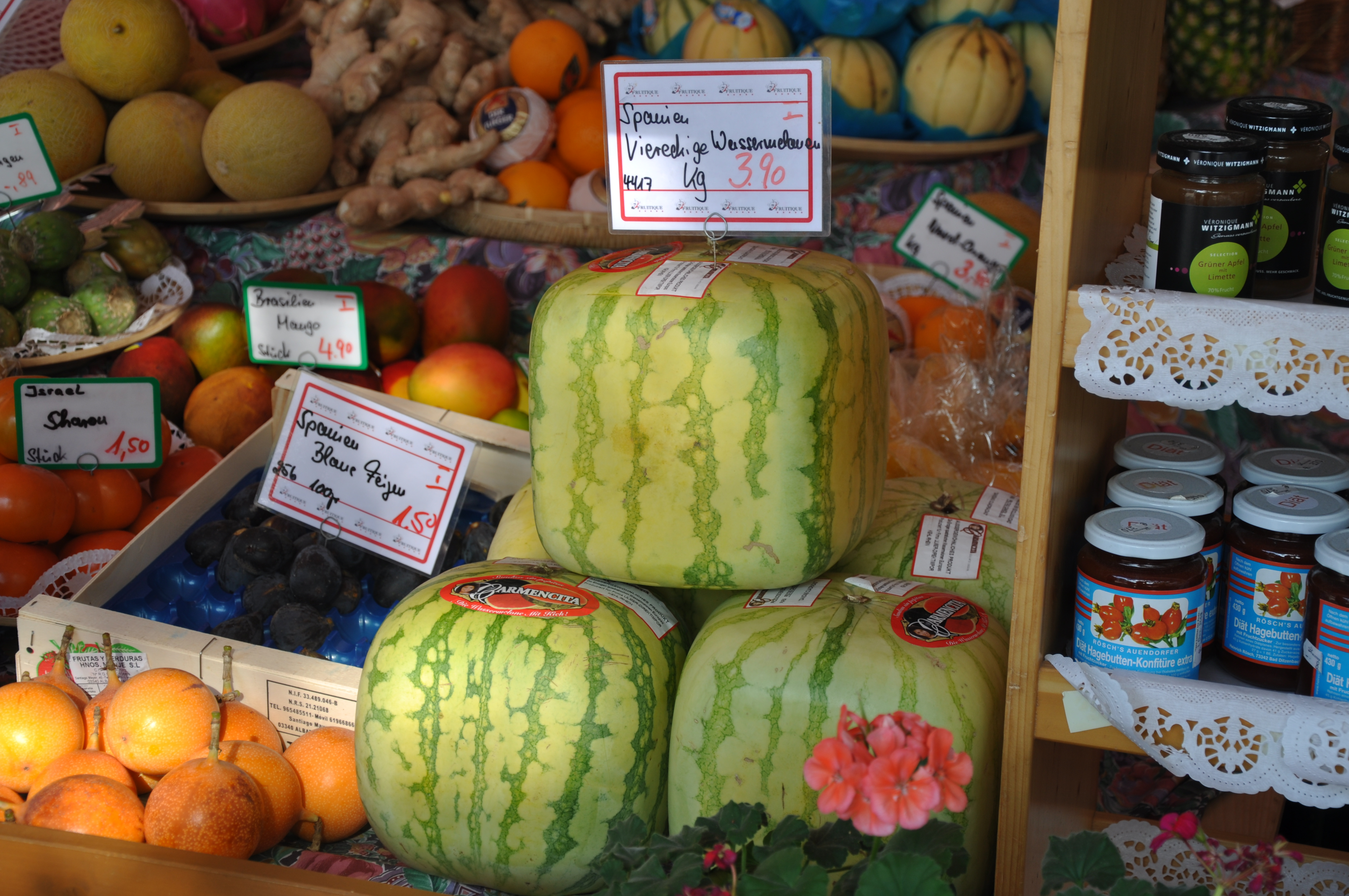 Cube Watermelons for Sale in Munich, Germany Market